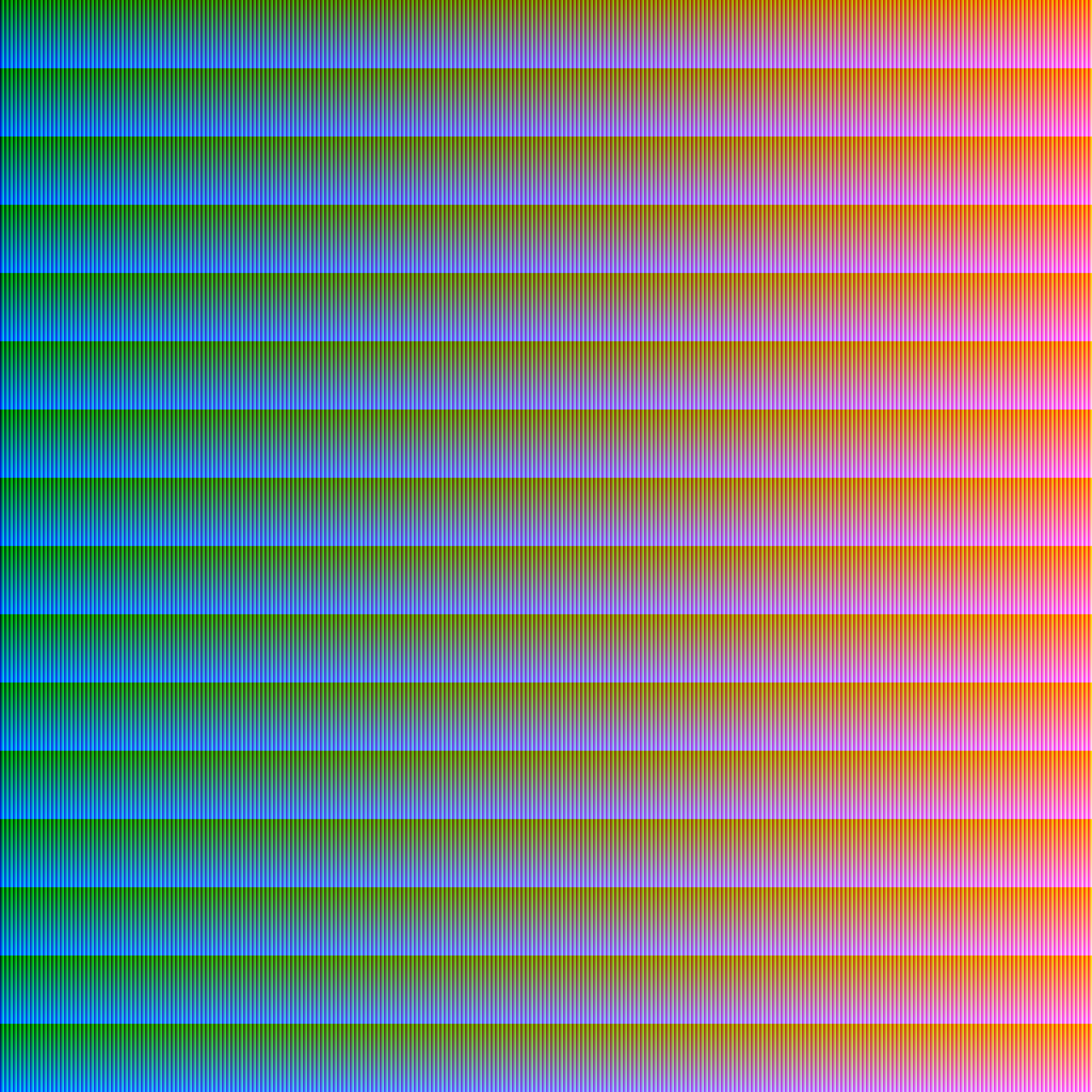 All 16777216 8-bit based Colors (Java generated)